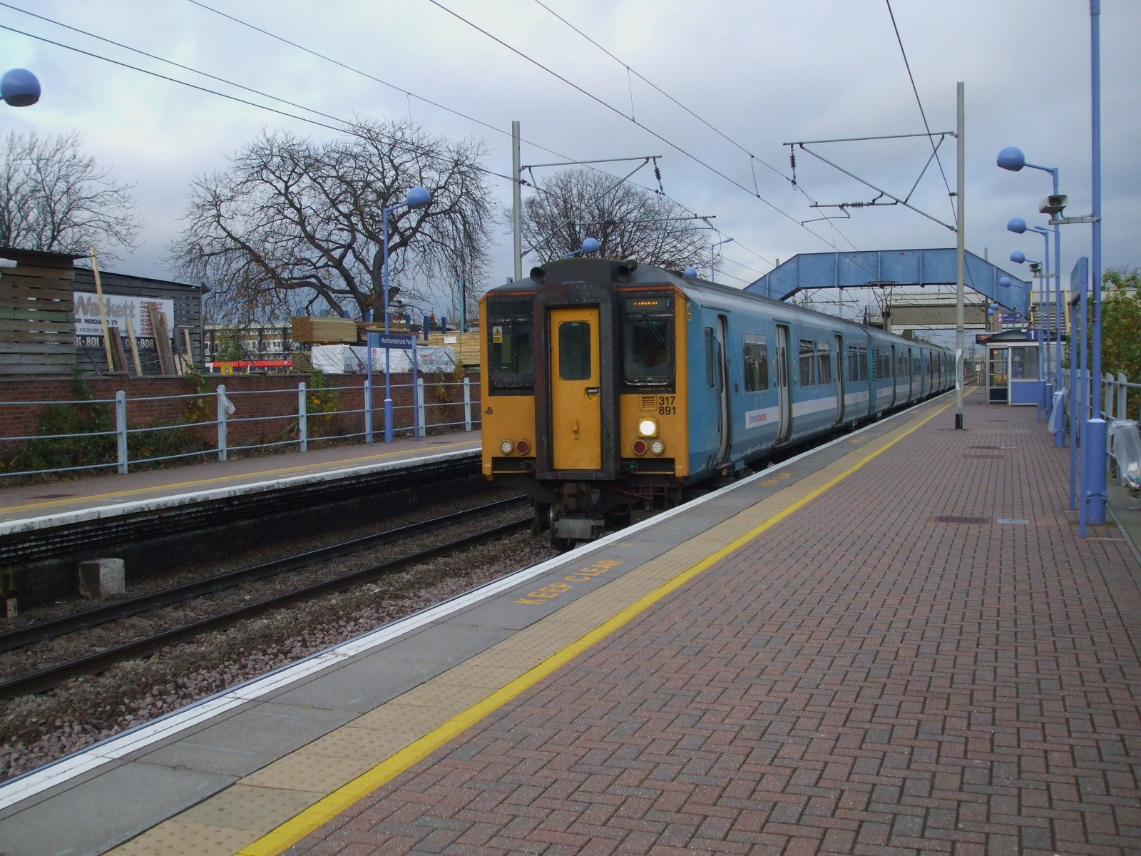 Class 317 unit 317891 passes fast through Northumberland Park station on a London-bound Stansted Express service